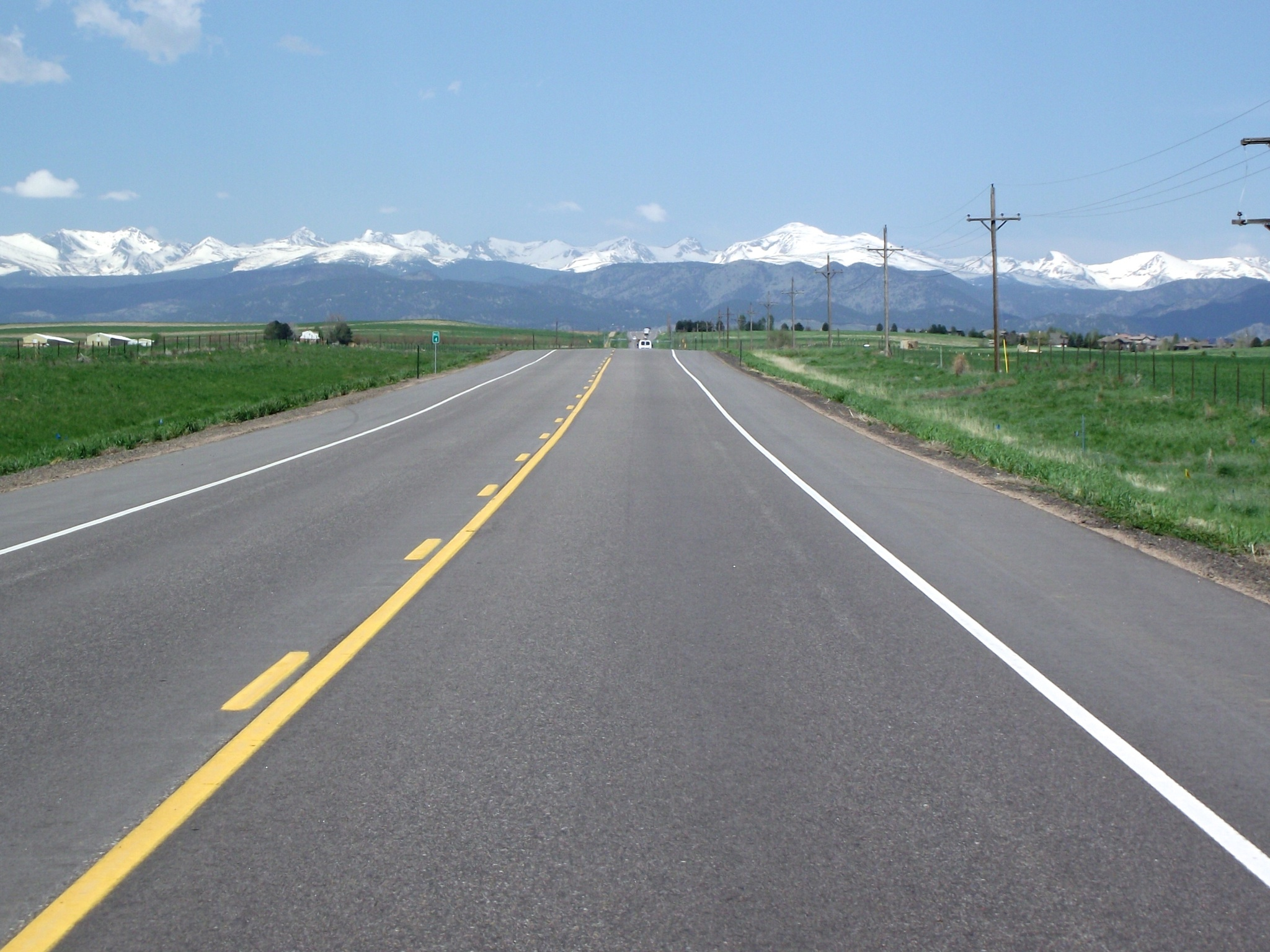 View of continental divide from CO 52 just west of US 287